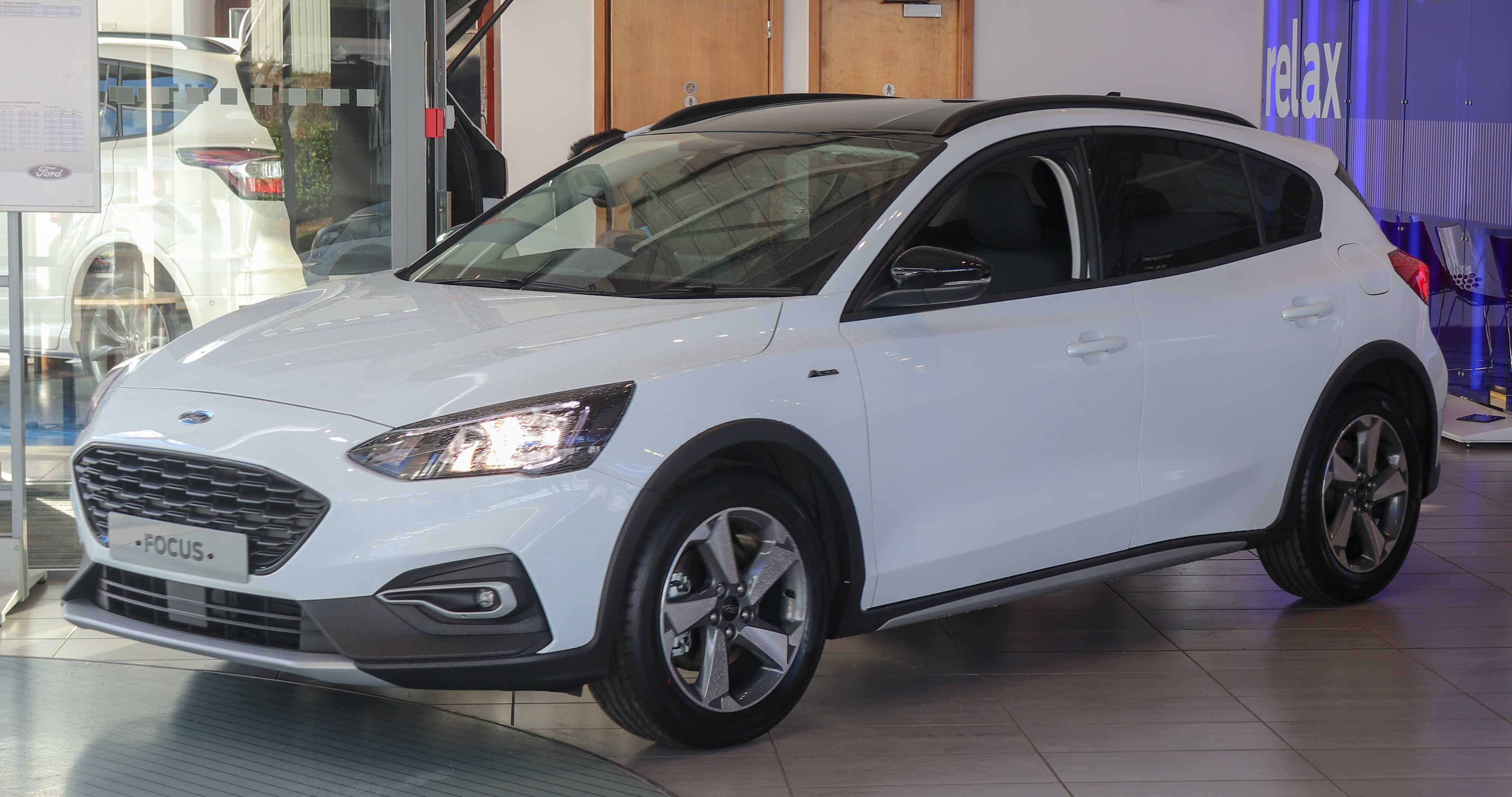 2019 Ford Focus Active Ecoboost 1.0 Front Taken in Leamington Spa